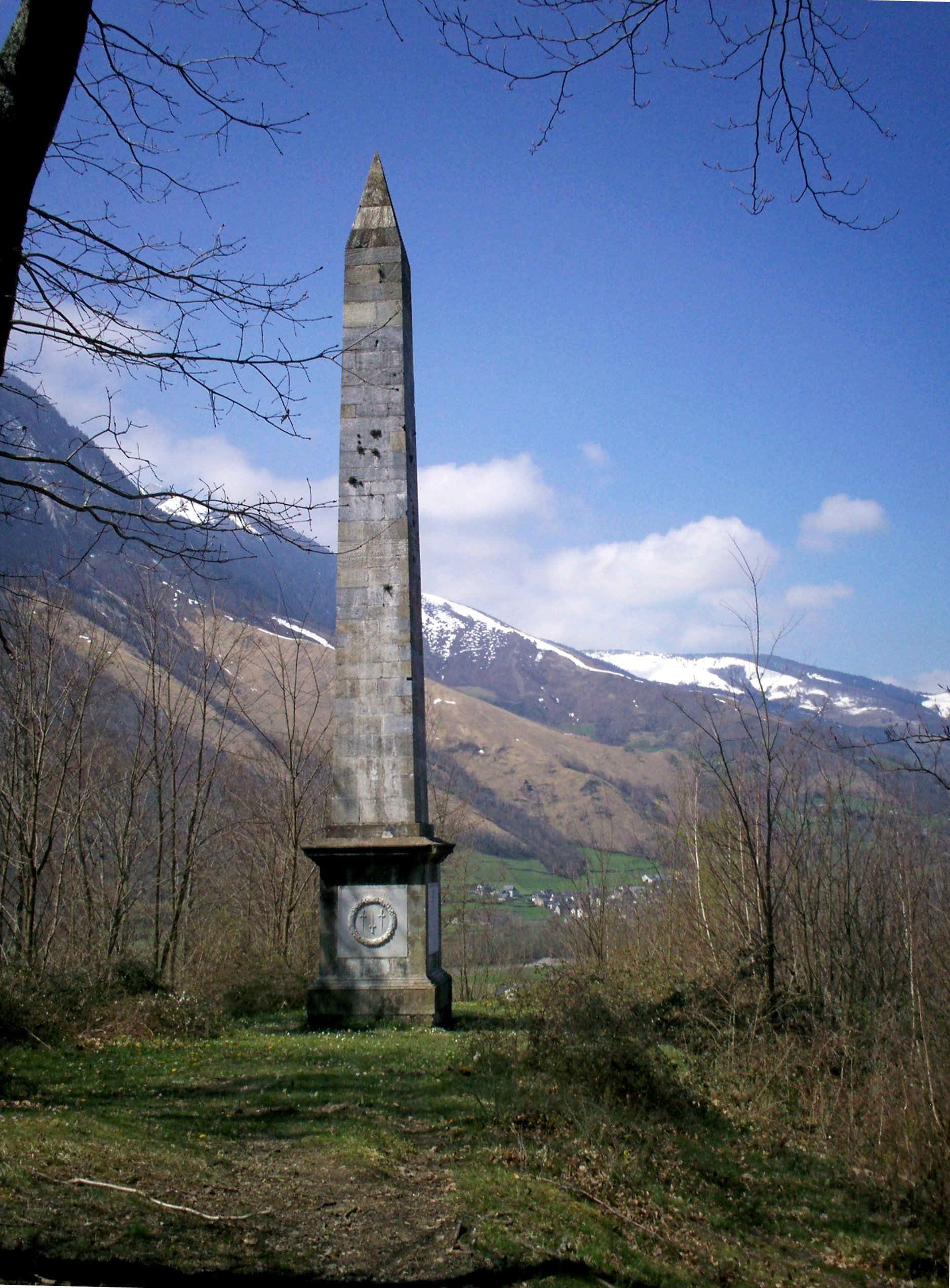 Obelisk in tribute to poet Cyprien Despourrins